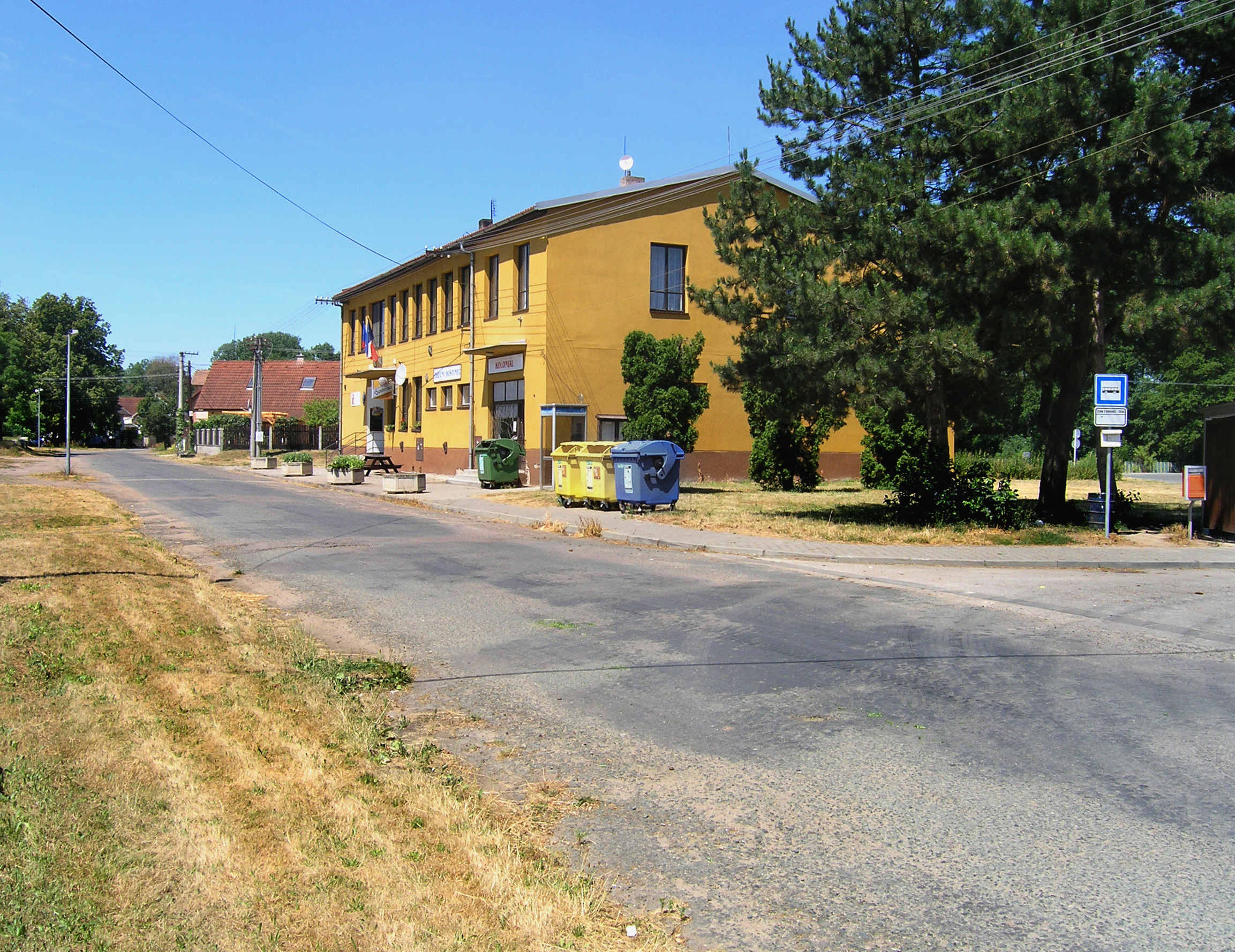 Municipal office in Černá u Bohdanče, Czech Republic